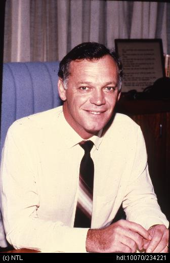 Stephen Hatton, Australian politician